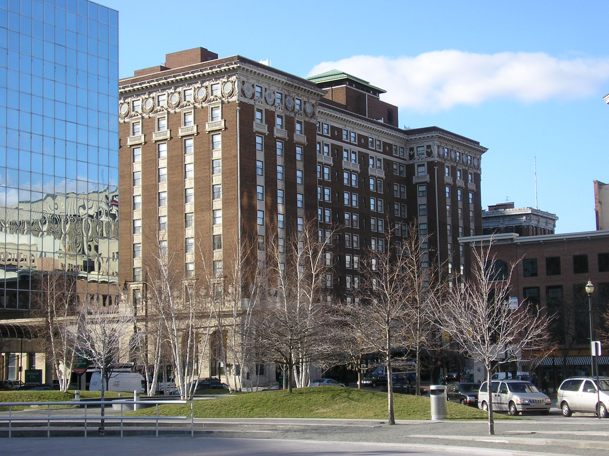 A portion of the Amway Grand Plaza Hotel in downtown Grand Rapids, Michigan. Self-made photo, release into PD.